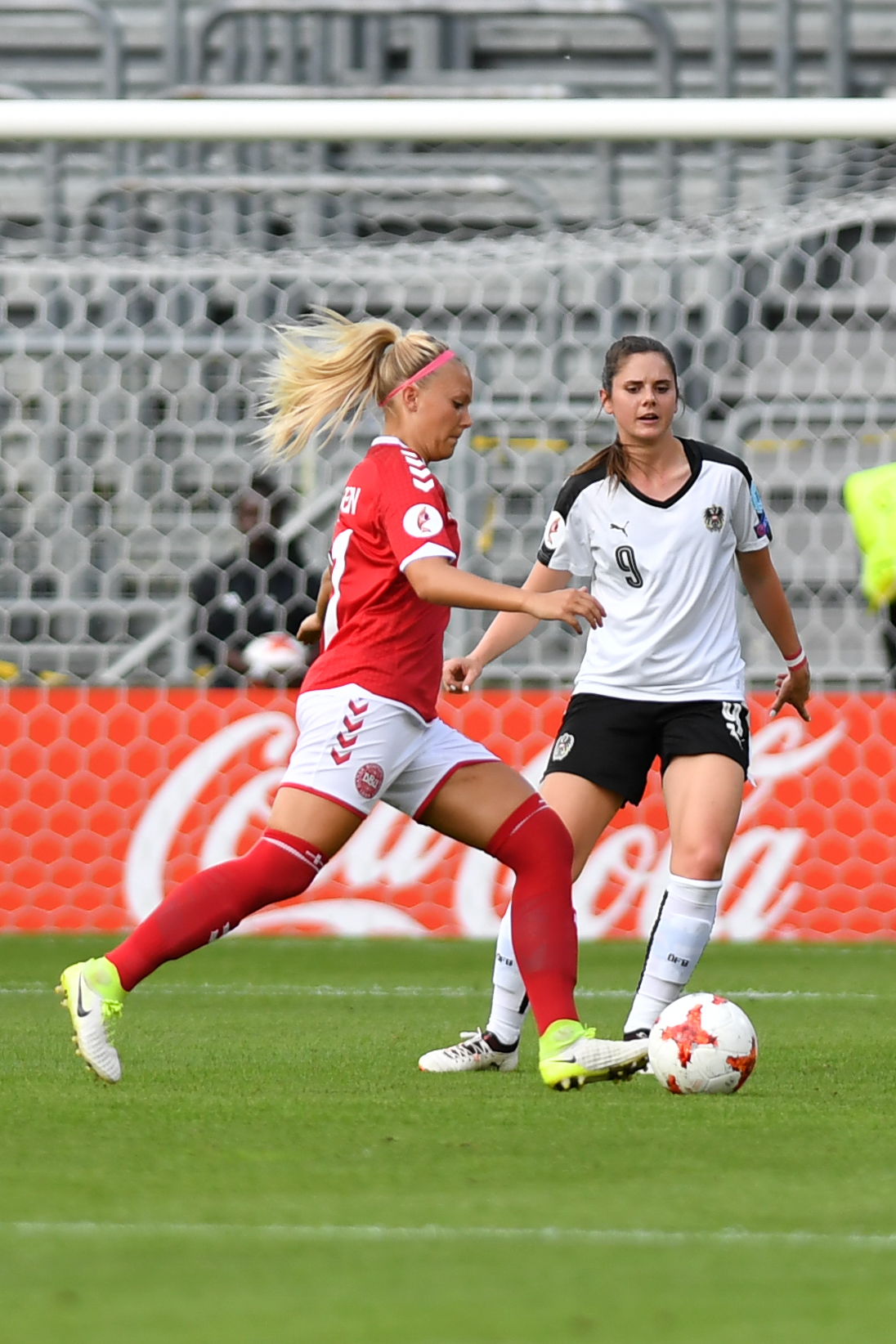 3/8/2017, Breda, Netherlands, sports, soccer, UEFA Women's Euro 2017 - Semifinal - Denmark vs Austria.